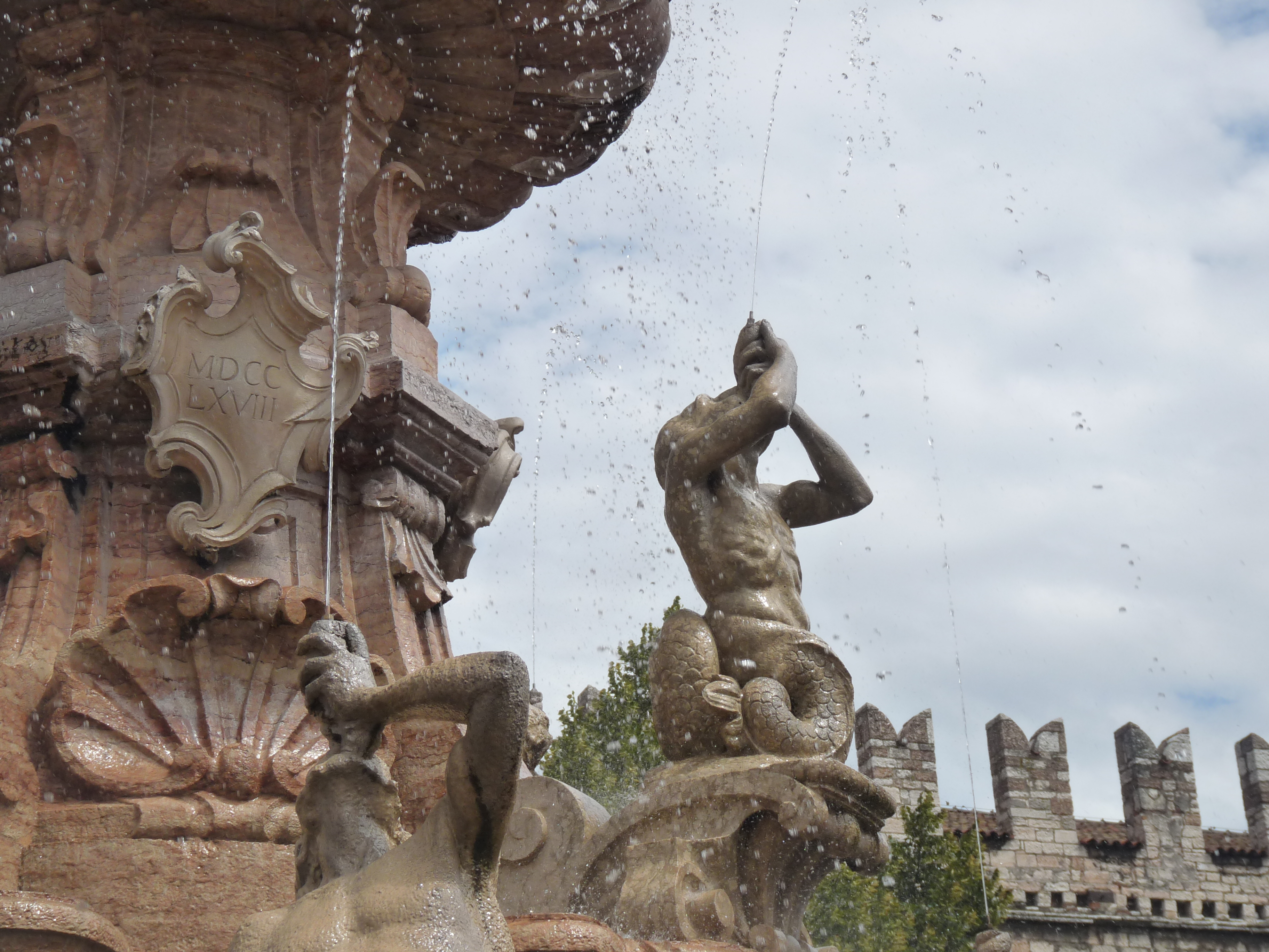 Trento (Italy): triton on the fountain of Neptune in piazza del Duomo. This statue is a further copy made in the 1920 by Davide Rigatti of the copies made in 1871 by Andrea Malfatti of the original statues, after it crashed down to the ground under the weight of the crowd gathered for the cerimony of annexation of Trento to the Kingdom of Italy. This statue has been made using ordinary local stone (reddish) instead of the calcareous stone of Arco as the other statues of the fountain, foreseeing the substitution of all statues.